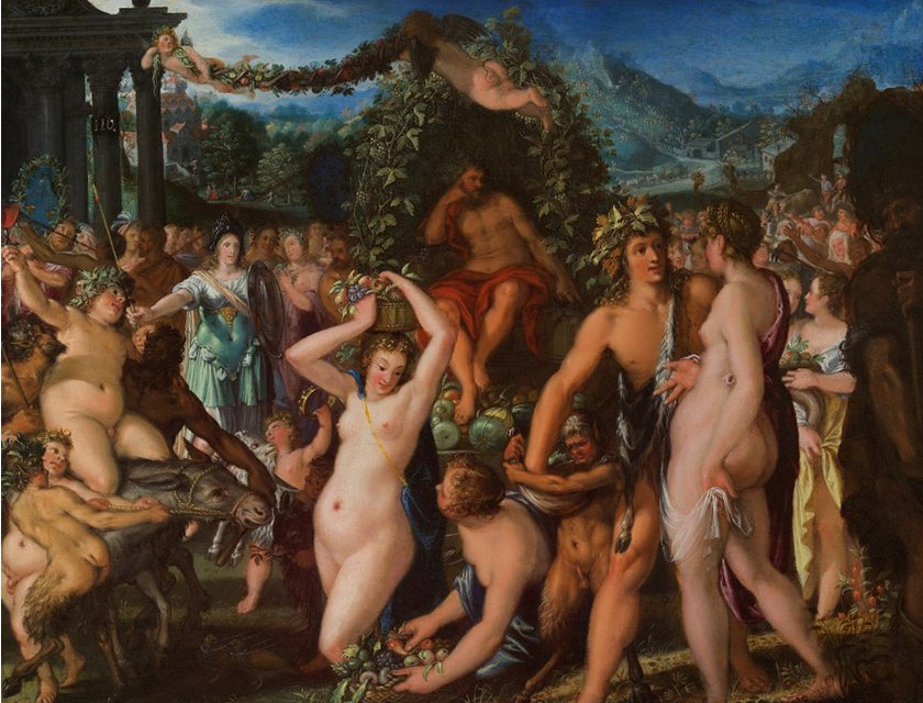 The Triumph of Autumn by Jacob Hoefnagel, oil on copper, 27 x 35.2 cm